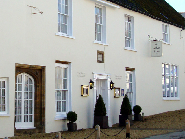 The Abbots House Restaurant The old pub has now gone, replaced by this new restaurant.